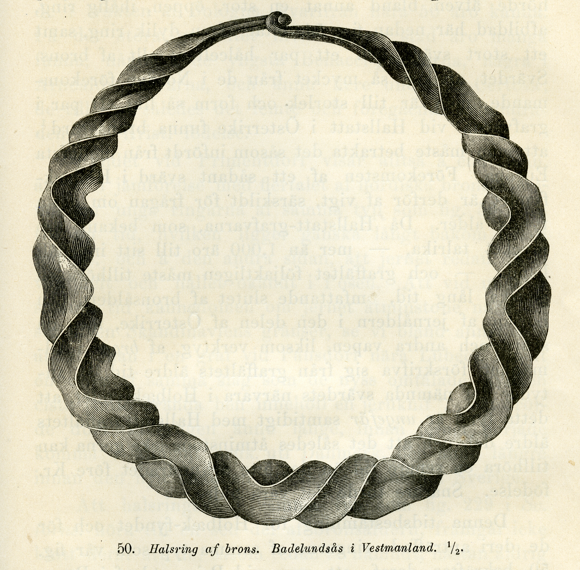 Bronze neck ring or torc from Badelundaåsen (i.e. "The Badelunda Esker"), Hubbo parish, Siende hundred, Västerås municipality, Västmanland, Sweden.